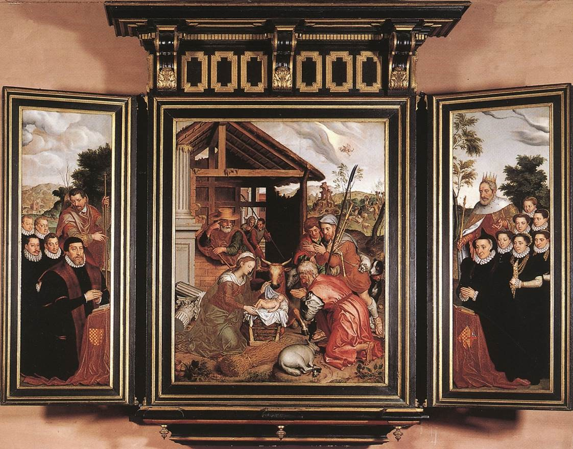 "Adoration of the shepherds"; left panel : Joos de Damhouder and sons; right panel : his wife Louise de Chantraines and six daughters; triptych by Pieter Pourbus (ca. 1523 - 1584)